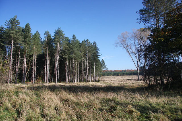 Edge of Thetford Forest, near to Wordwell, Suffolk, Great Britain. These trees mark the southern fringe of Thetford Forest.